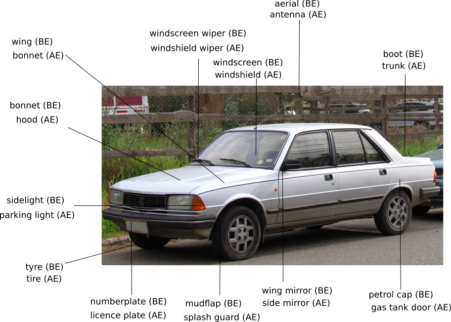 Car part names British English and American English.